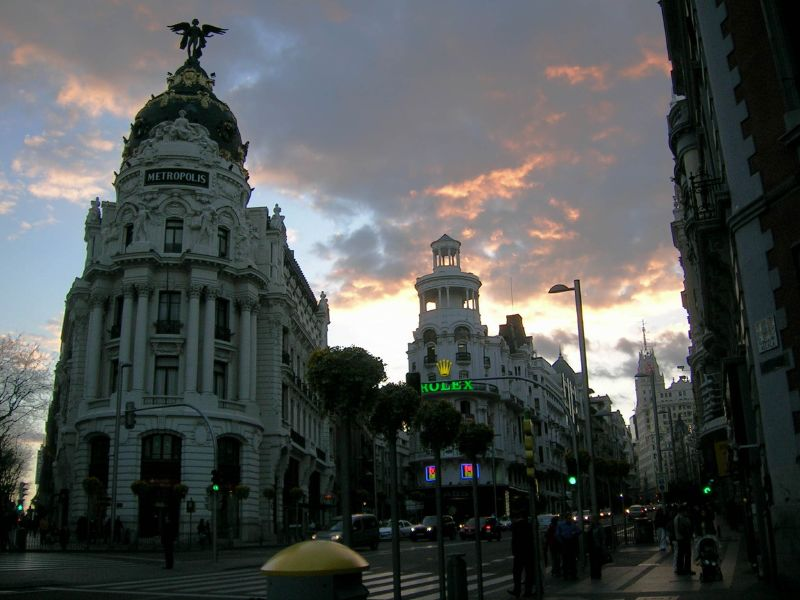 Gran Vía, a downtown avenue in Madrid (Spain). At the left, the Metropolis Building (1911).